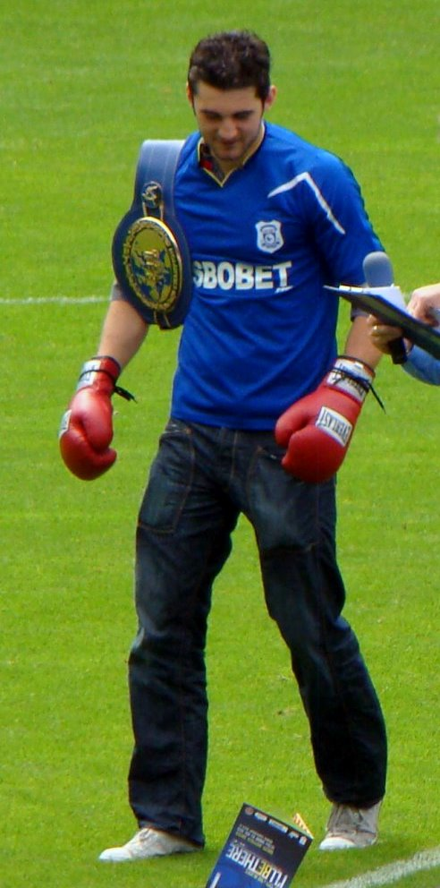 Nathan Cleverly, 08/08/10. Cardiff V Sheffield United, Championship, Cardiff City Stadium, Cardiff, Wales.